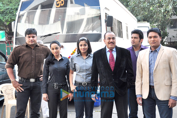 Daya Shetty, Ansha Sayed, Janvi Chheda, Shivaji Satam, Aditya Srivastava at Aamir Khan on the sets of 'CID'